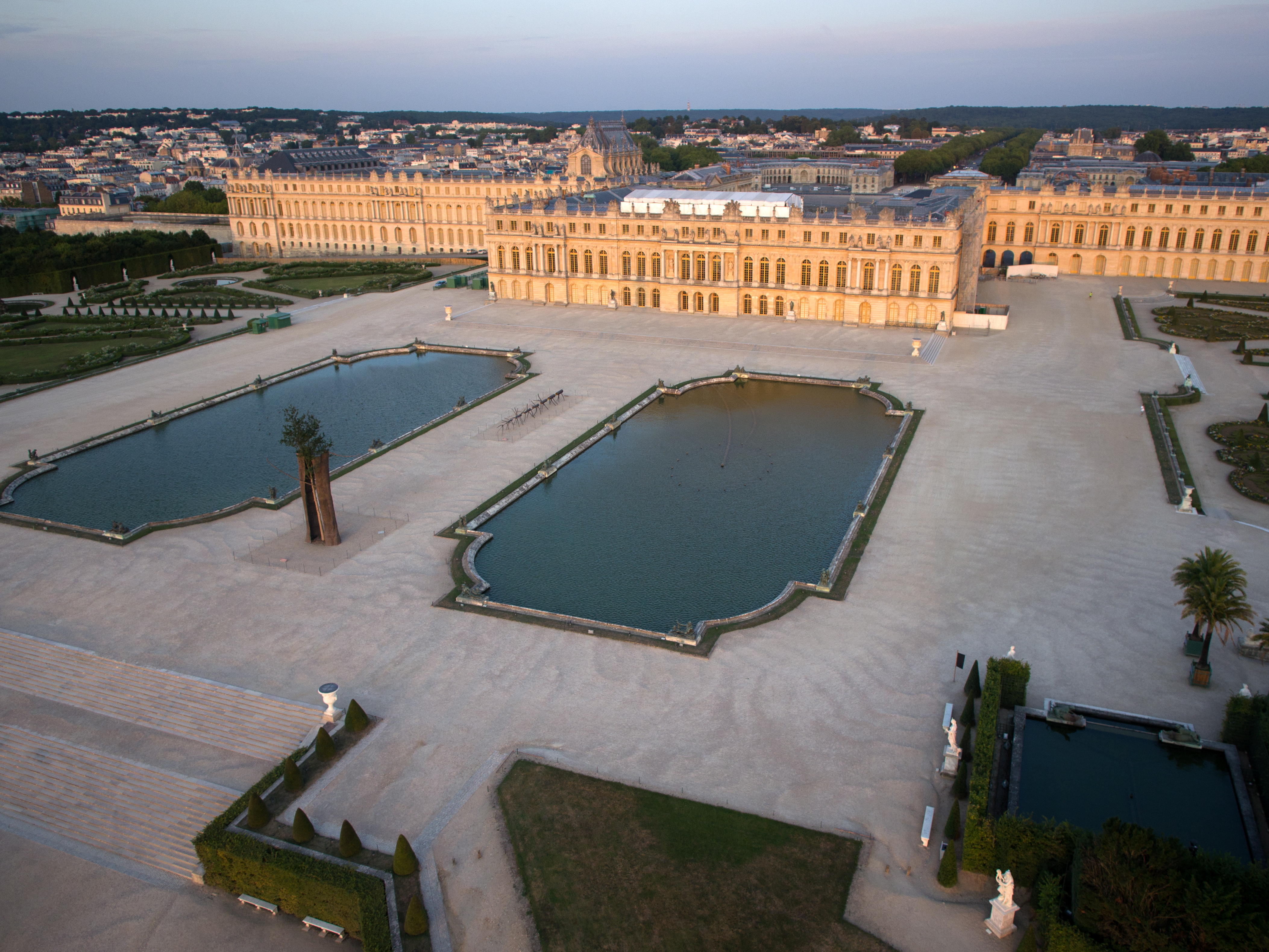 Aerial view of the Domain of Versailles, France